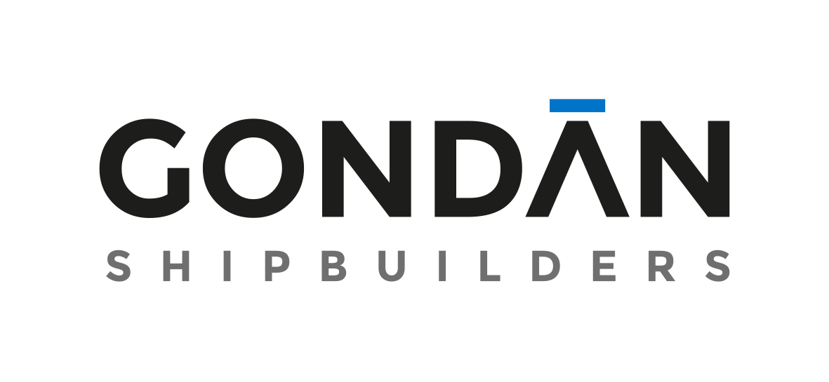 Logo of Astilleros Gondan, S.A.